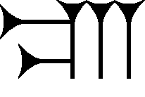 Cuneiform sign The sign for MÁ, a sumerogram-(a capital letter majuscule), for English language "ship", or "boat". (In Epic of Gilgamesh, and Amarna letters.)